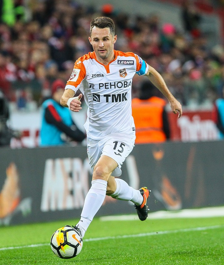 Denys Kulakov